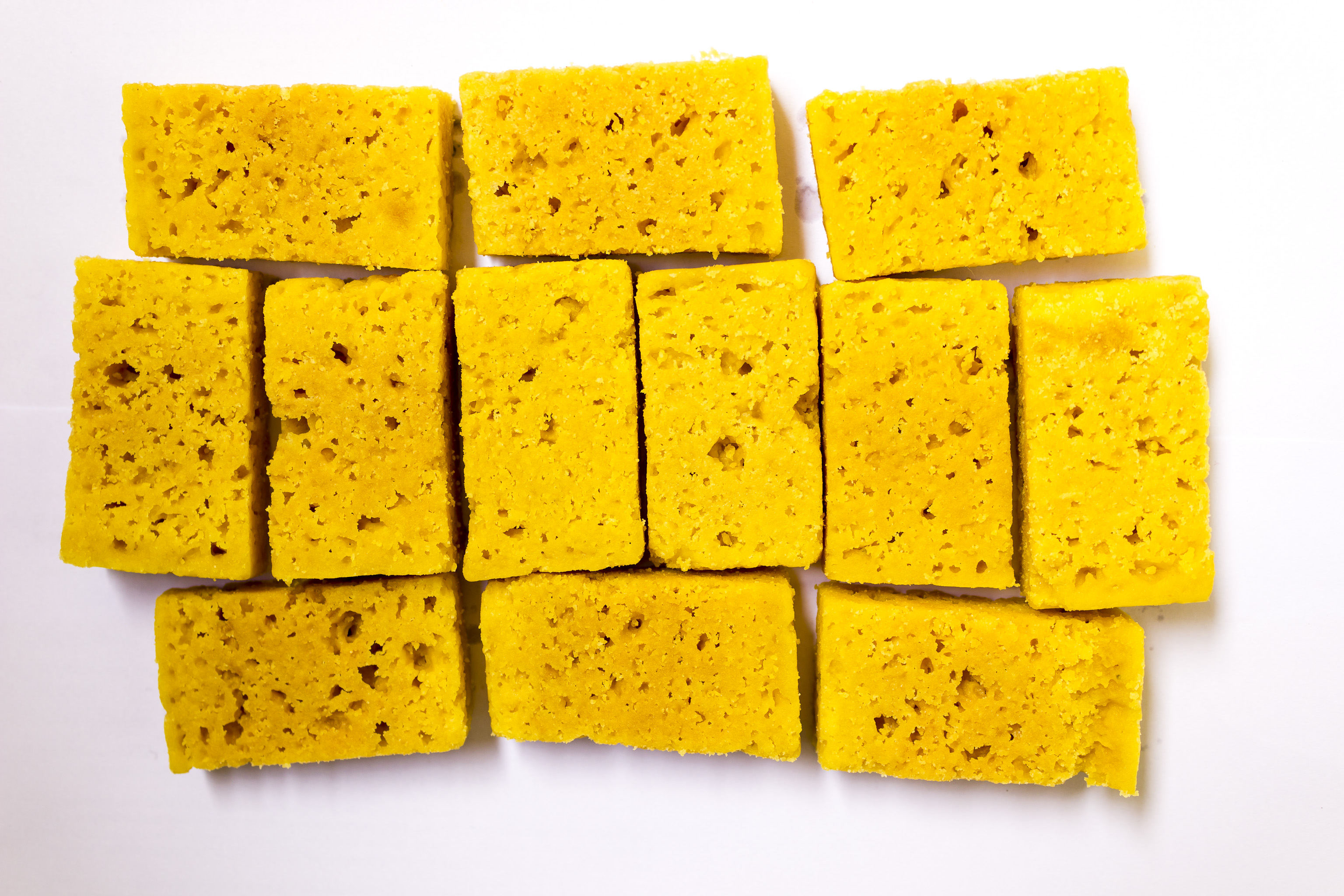 South Indian sweets or dessert called Mysore pak made from gram flour, powdered sugar and clarified butter